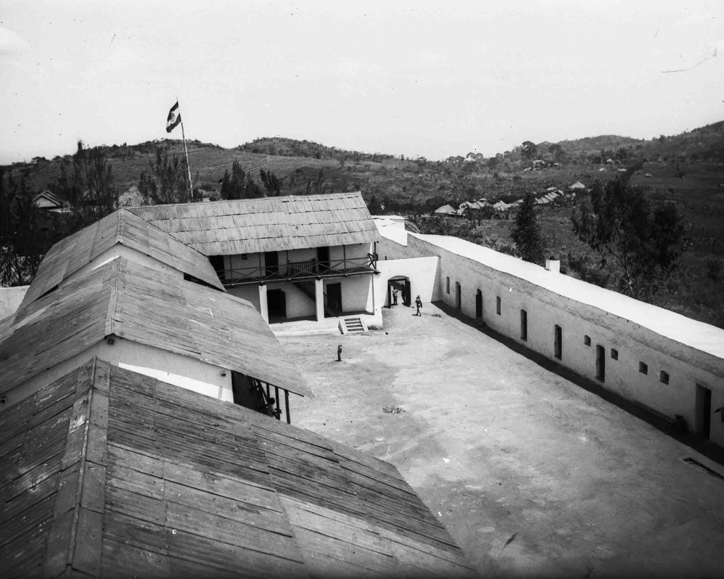 Boma Mahenge, German East Africa